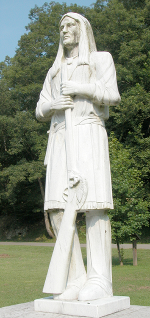 Chief Logan, statue at Chief Logan State Park, West Virginia, USA. Image copyleft: Image taken by me, released under GFDL Pollinator 02:46, Dec 24, 2004 (UTC)